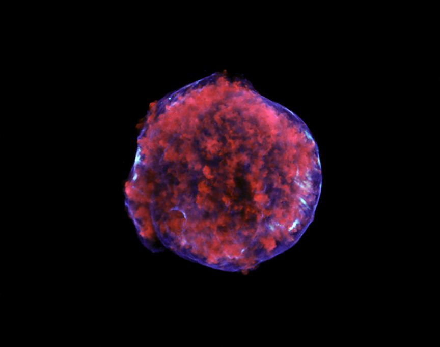 X-ray & Optical images of Tycho - A long Chandra observation of Tycho has revealed a pattern of X-ray "stripes" never seen before in a supernova remnant. The stripes are seen in the high-energy X-rays (blue) that also show the blast wave, a shell of extremely energetic electrons. Low-energy X-rays (red) show expanding debris from the supernova explosion. The stripes, seen to the lower right of this image, may provide the first direct evidence that a cosmic event can accelerate particles to energies a hundred times higher than achieved by the most powerful particle accelerator on Earth.